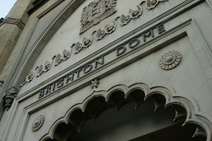 The entrance of the Brighton Dome complex.